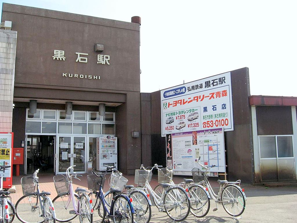 Kōnan Kuroishi Station, on the Kōnan Railway Kōnan Line, Kuroishi, Aomori 大鰐駅